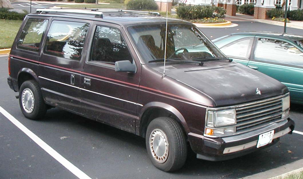 1987-1990 Plymouth Voyager SWB photographed in USA.